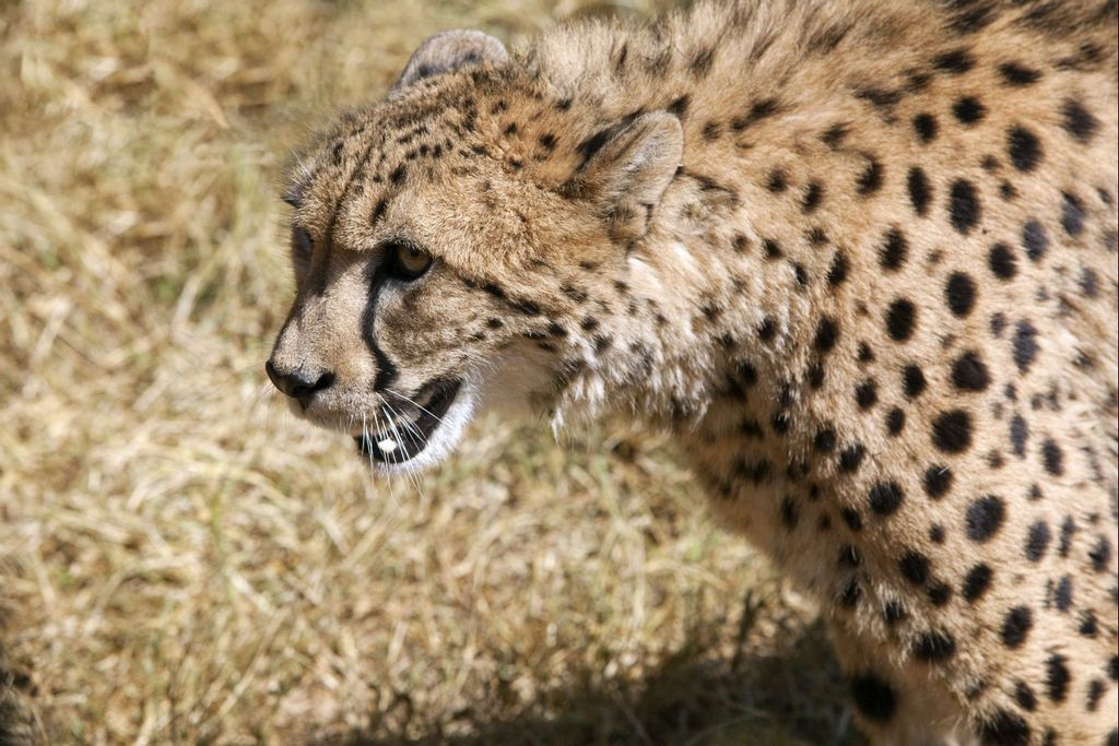 Cheetah at De Wildt Cheetah Farm, Hartbeespoort, North West Province, South Africa Vue du North West en Afrique du Sud.